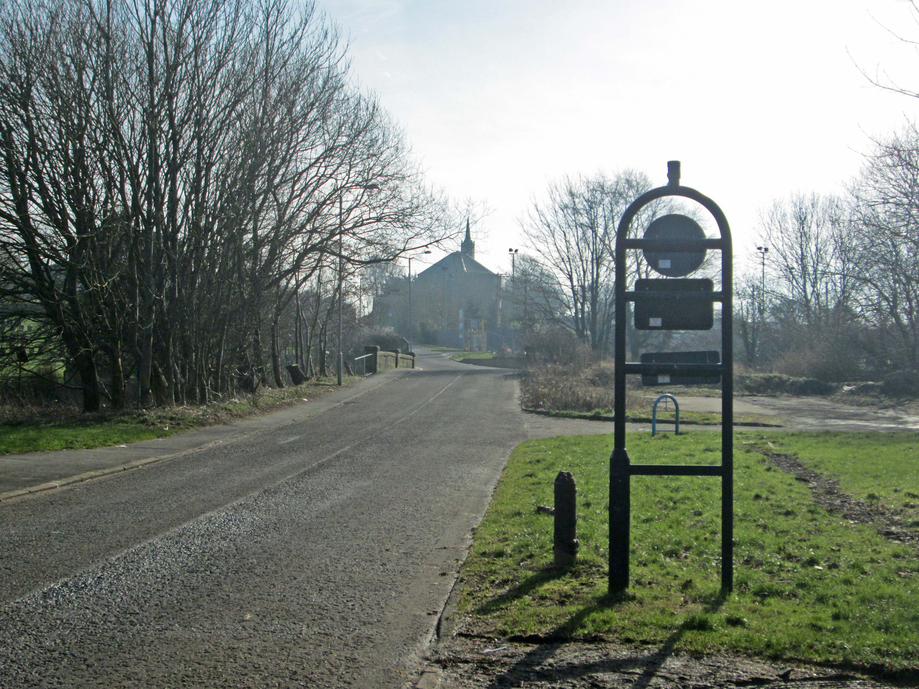 Dreghorn looking south up Station Brae over Dreghorn Bridge across the Annick Water to Dreghorn and Springside Parish Church. Taken from National Cycle Route 73 at the site of Dreghorn railway station